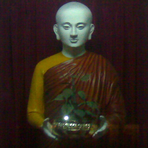 An Arhat Sangamitta Statue at a Bhikkhuni Monastery in Colombo Sri Lanka. සිංහල: සංඝමිත්තා තෙරණිය.